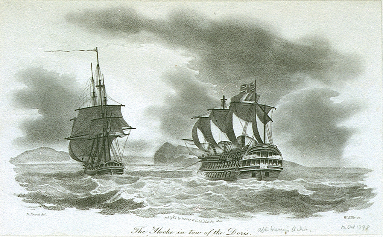 The Hoche in tow of the Doris PU5607 Vignette from the 'Naval Chronicle'. A stern view of both the Doris and the Hoche, both running before the wind towards a coastline. The captured French Le Hoche, although towed by the Doris, has her main sails hoisted but upper yards missing, and is flying the Union Jack flag. The smaller Doris, on the left of the image, has her lower courses and top sails raised but not top gallants. The Hoche was captured by Sir John Warren, in HMS Robust, on 12th October 1798 and was towed by HMS Doris into Lough Swilly, County Donegal, Ireland, which is presumably the coastline seen in this image. Catalogue entries PAD5608 and PAI9897 may be other copies of this image.